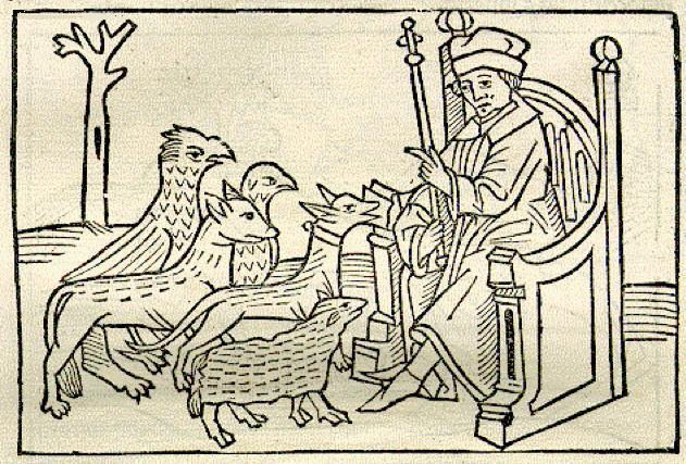 A woodcut of Aesop's fable of The Dog and the Sheep" from the Mannheim edition of Steinhowel's Esopus